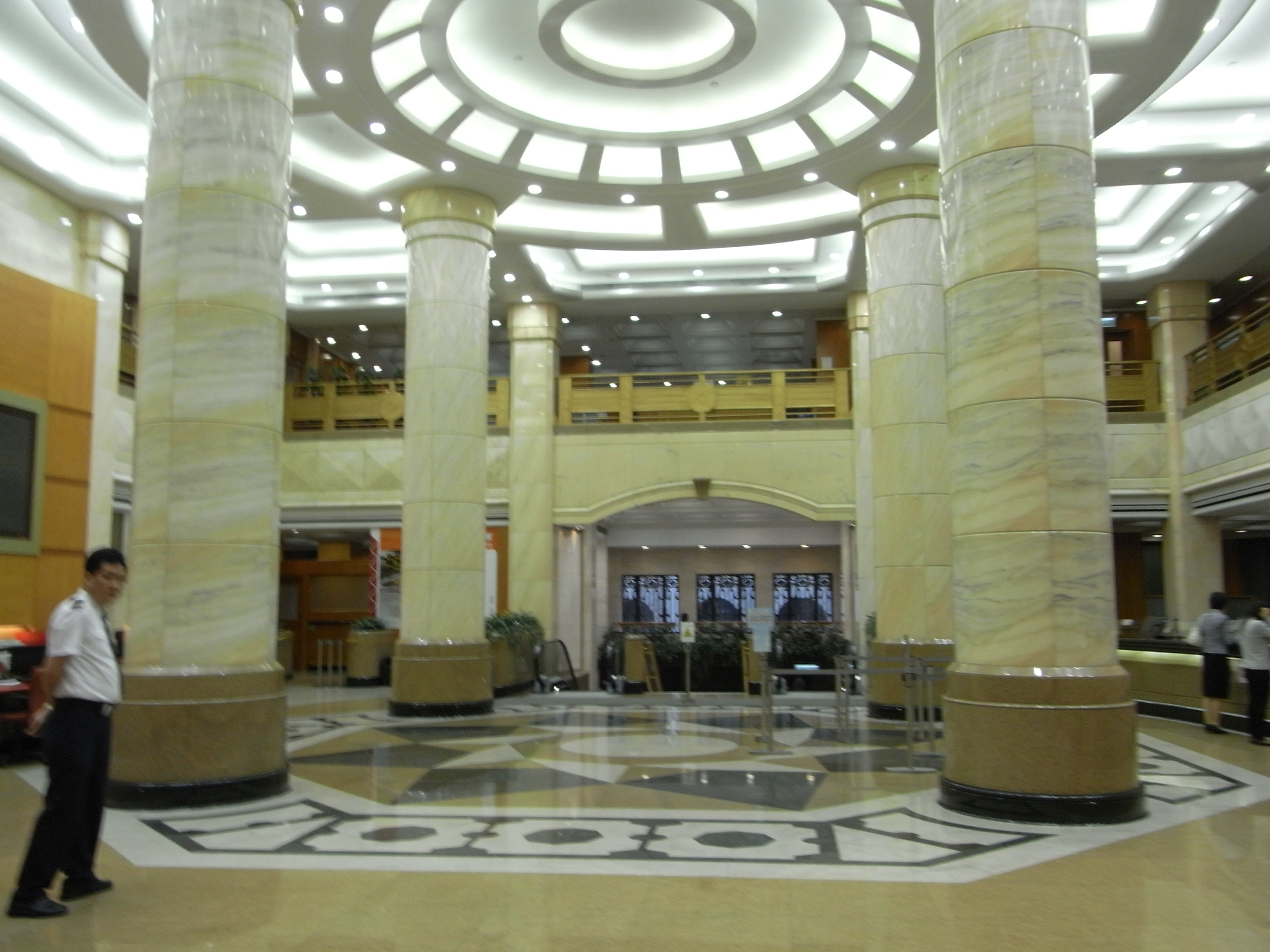 香港中環中國銀行大廈